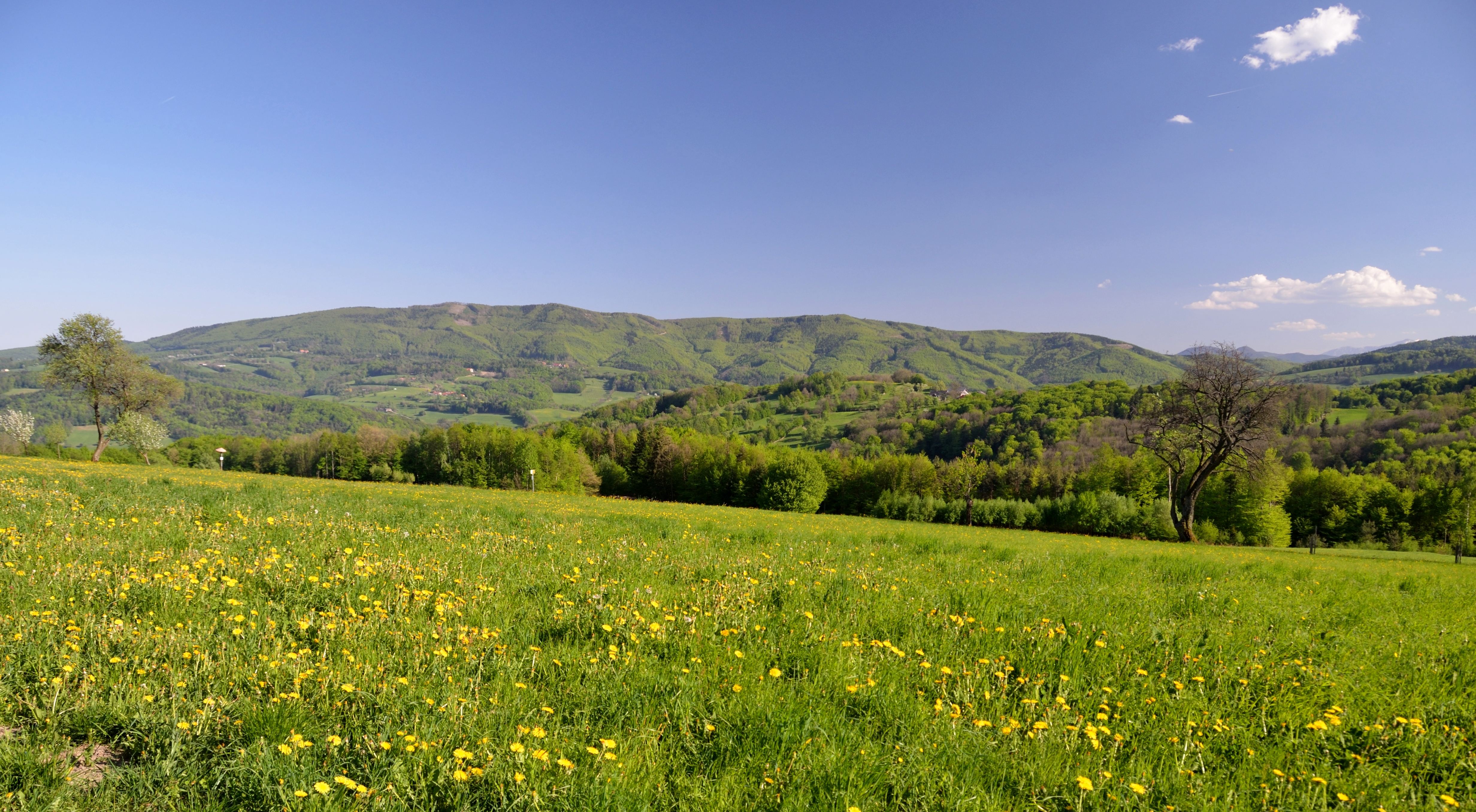 Schöpfl (893m), the highest mountain of Wienerwald seen from NW.